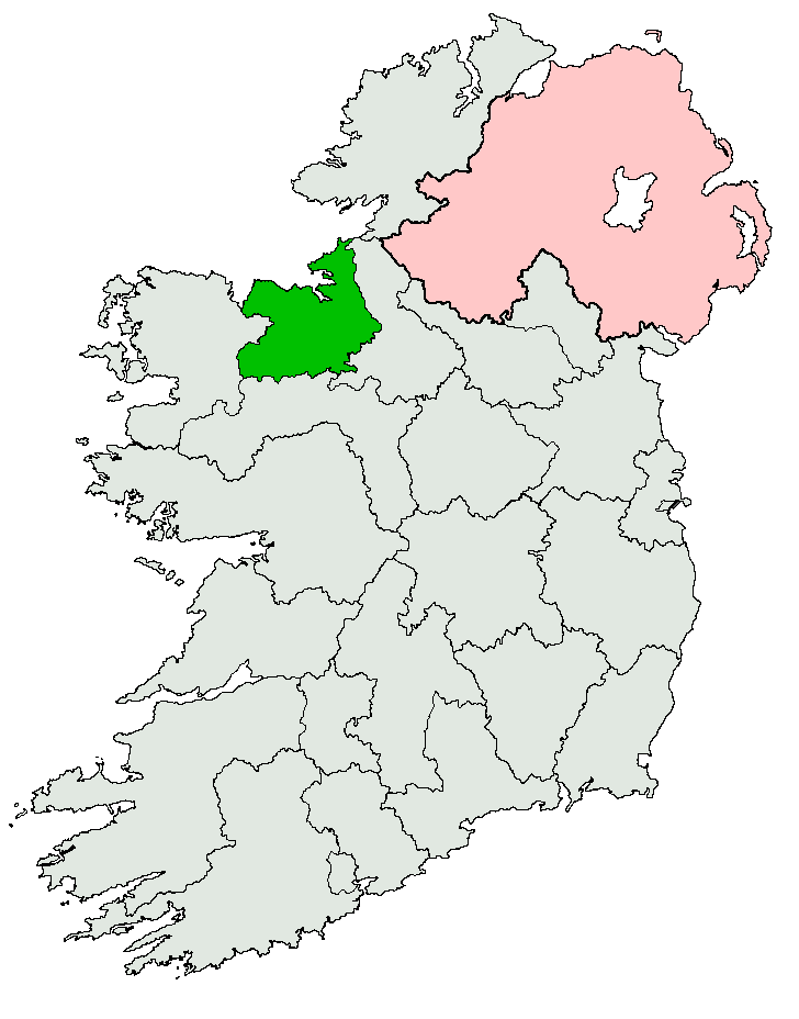 Map depicting the former Irish electoral constituency of Sligo-Mayo East, created under the Government of Ireland Act 1920 and abolished under the Electoral Act of 1923.